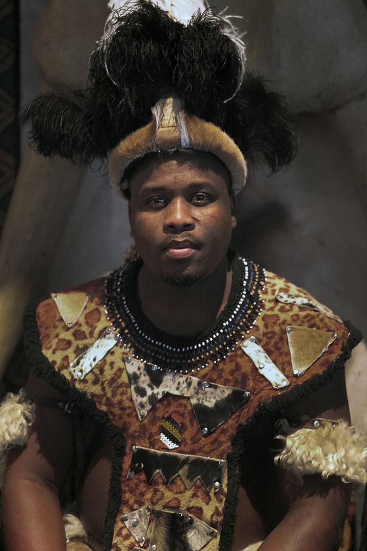 South Africa: Traditional Healer